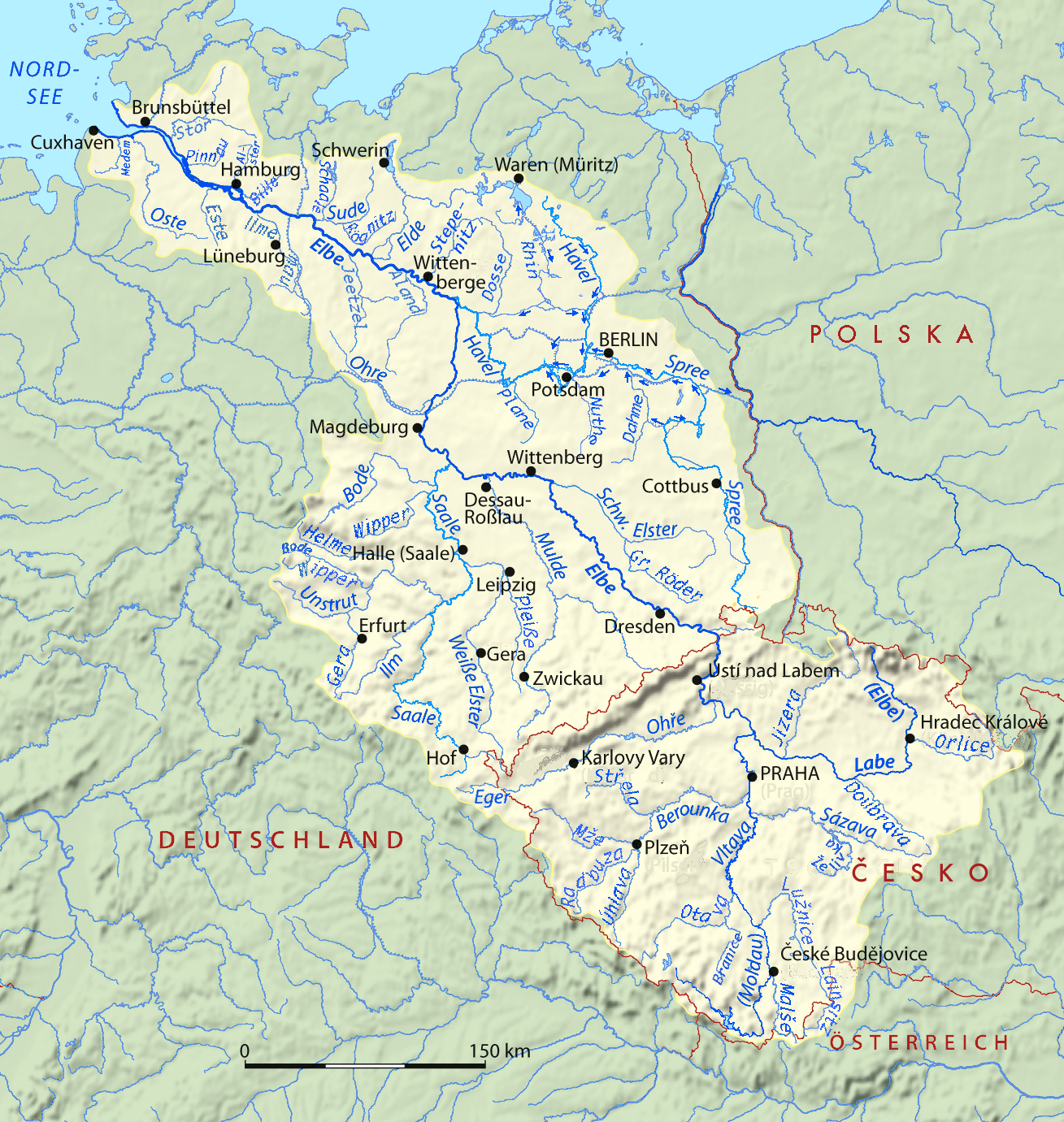 Drainage basin of Elbe River